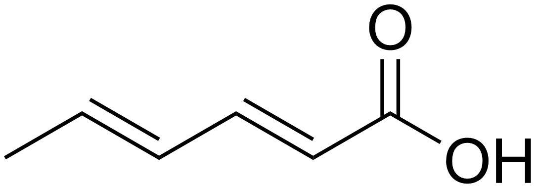 chemical structure of sorbic acid